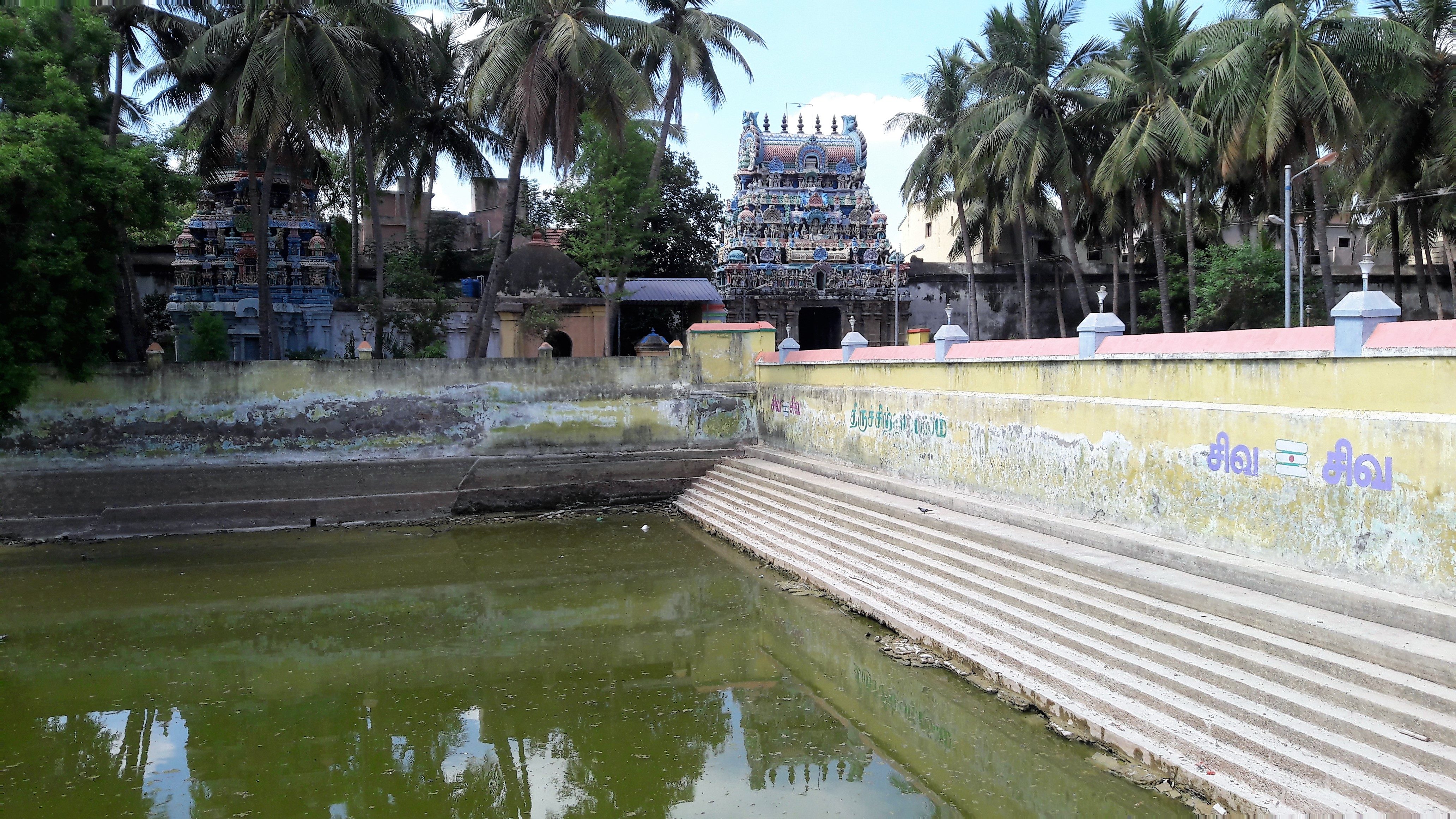 Aiyarappar temple Thiruvayyaru